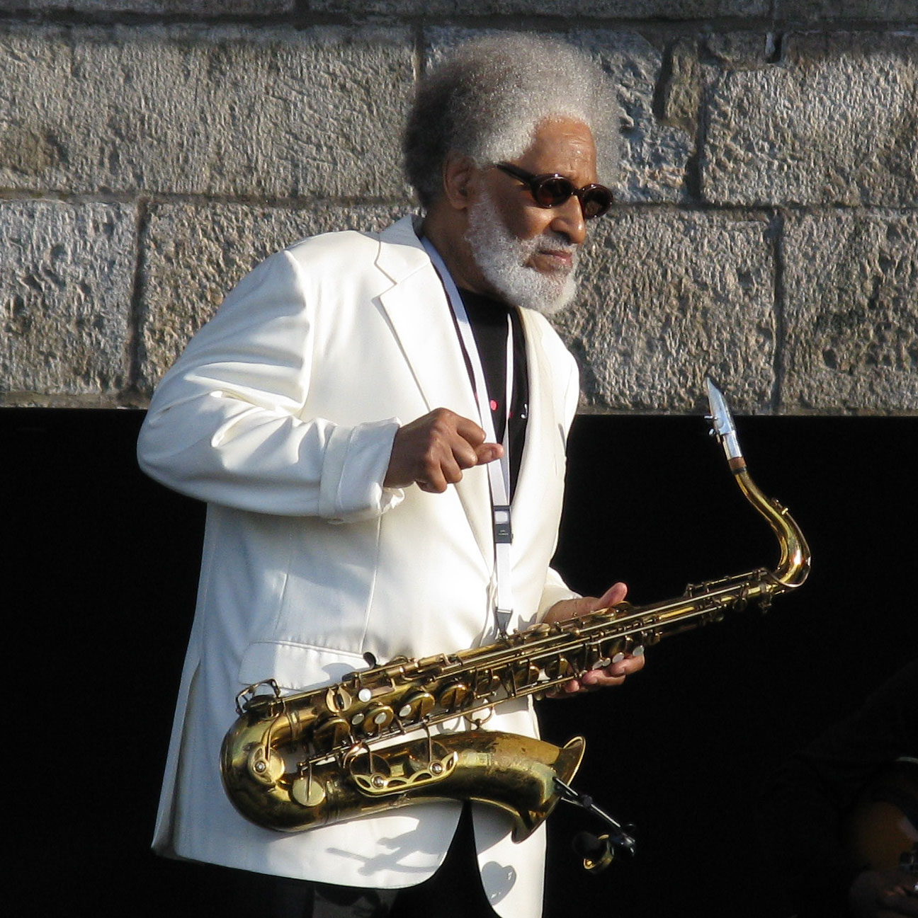 Sonny Rollins on the main stage at the Newport Jazz Festival in Rhode Island, 2008